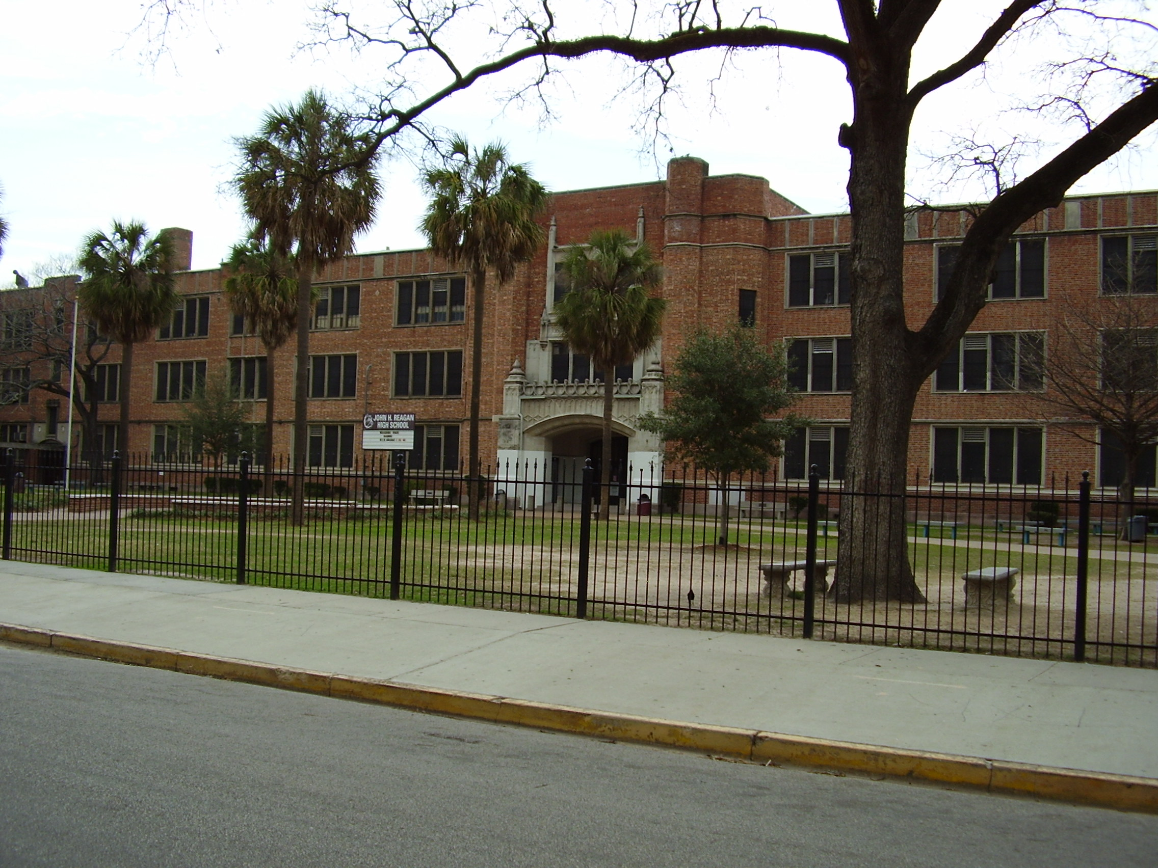 John H. Reagan High School